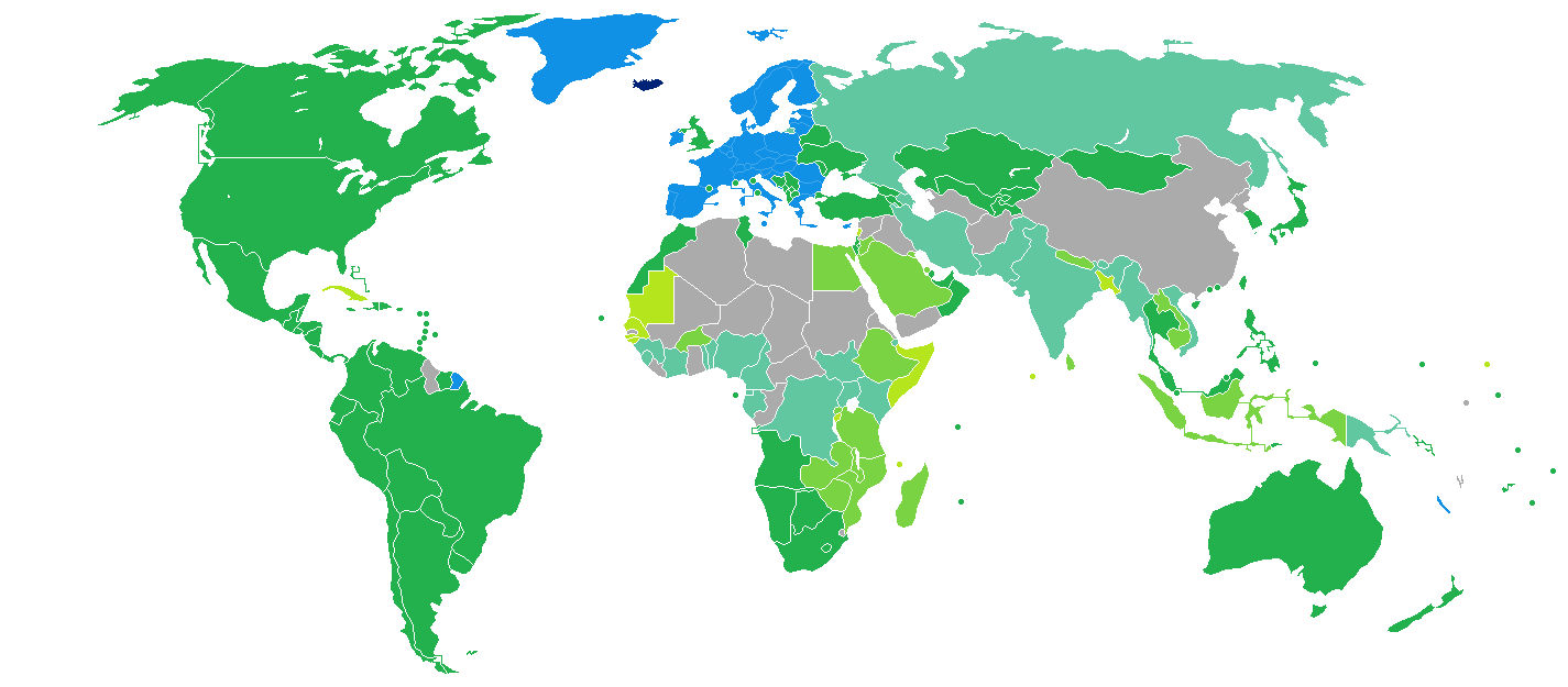 Visa requirements for Icelandic citizens Iceland Freedom of movement Visa not required Visa on arrival eVisa Visa may be obtained online or on arrival Visa required prior to arrival